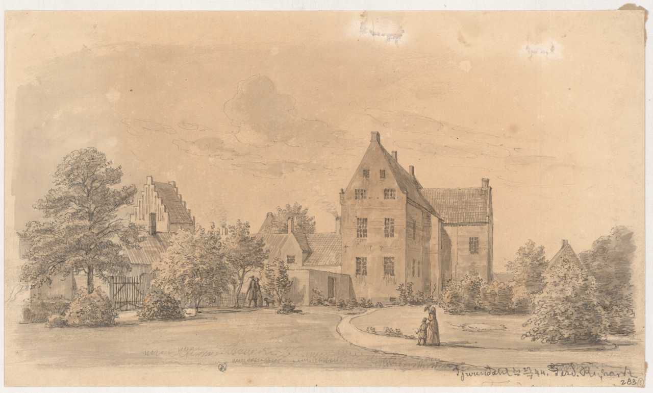 Frydendal, now Torbensfeldt, in Denmark